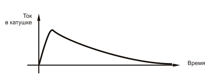 форма монофазоного стимула, выдаваемая индуктором магнитного стимулятора